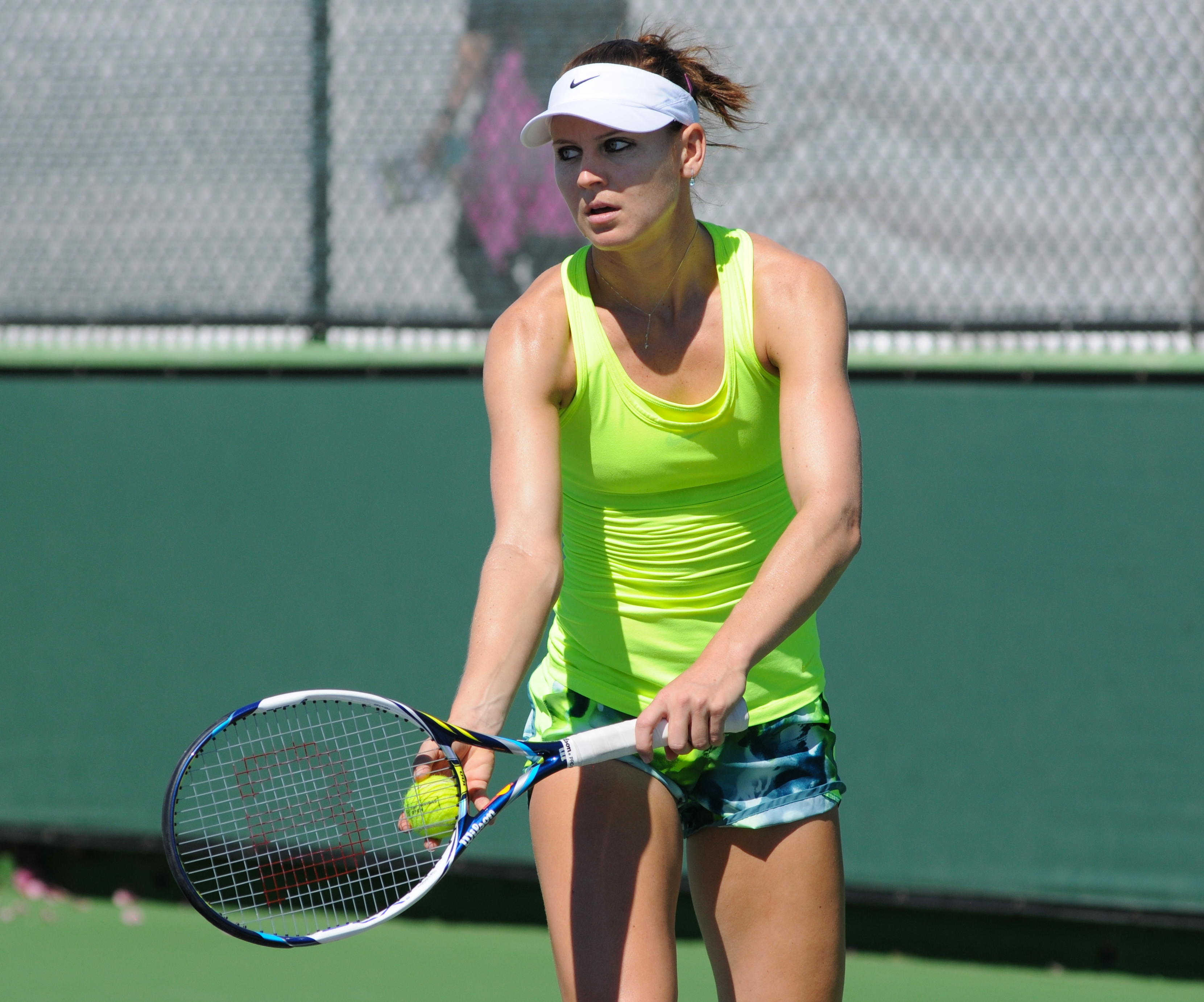 Lucie Šafářová at the 2015 BNP Paribas Open